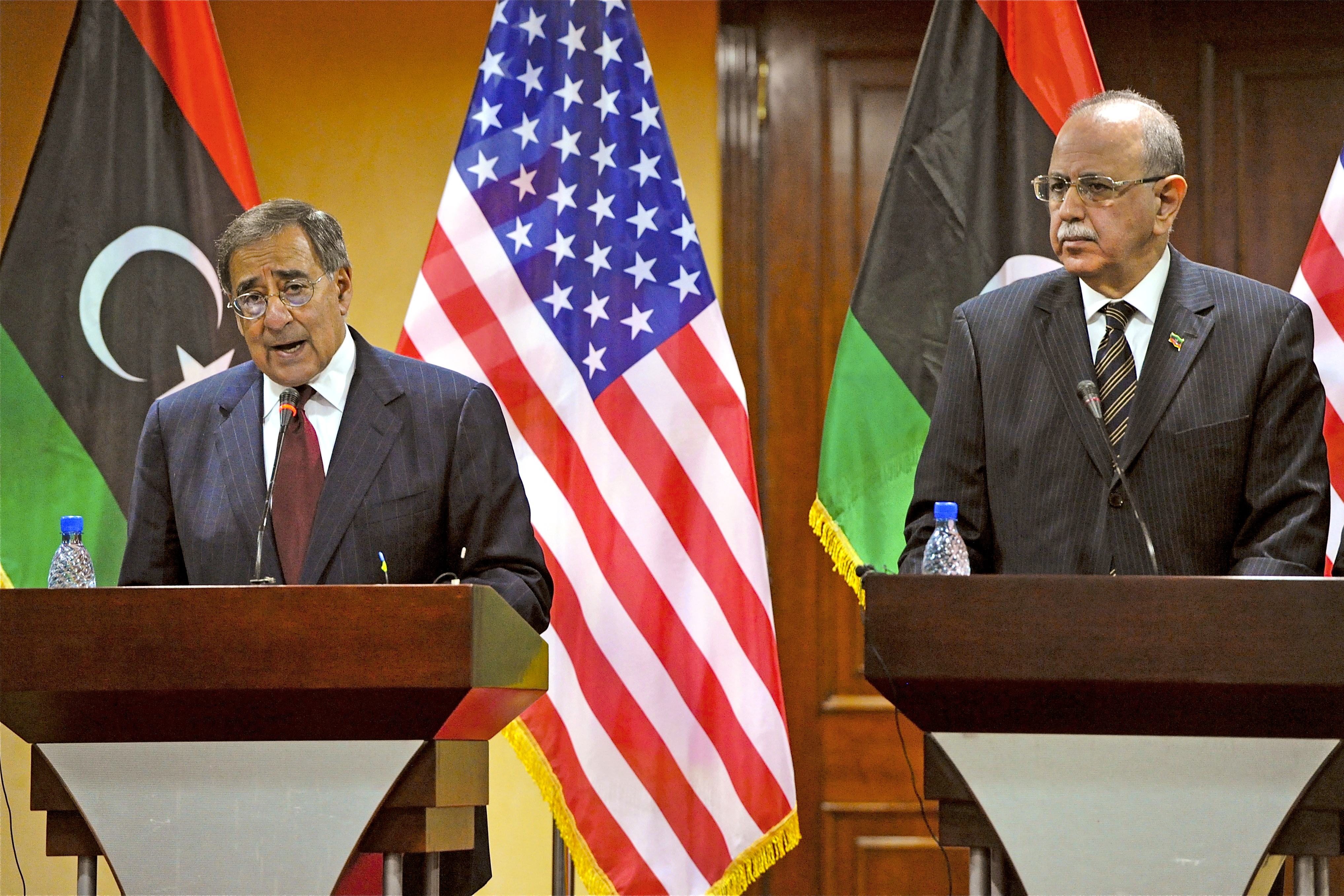 U.S. Defense Secretary Leon E. Panetta and Libyan Prime Minister Abd al-Raheem Al-Keeb, conduct a press conference in Tripoli, Libya, Dec. 17, 2011. Panetta said that Libya faces a challenging transition, adding that he has full confidence that the Libyan people can succeed in realizing the dream of a representative government and a more secure and prosperous future. DOD photo by Erin A. Kirk-Cuomo